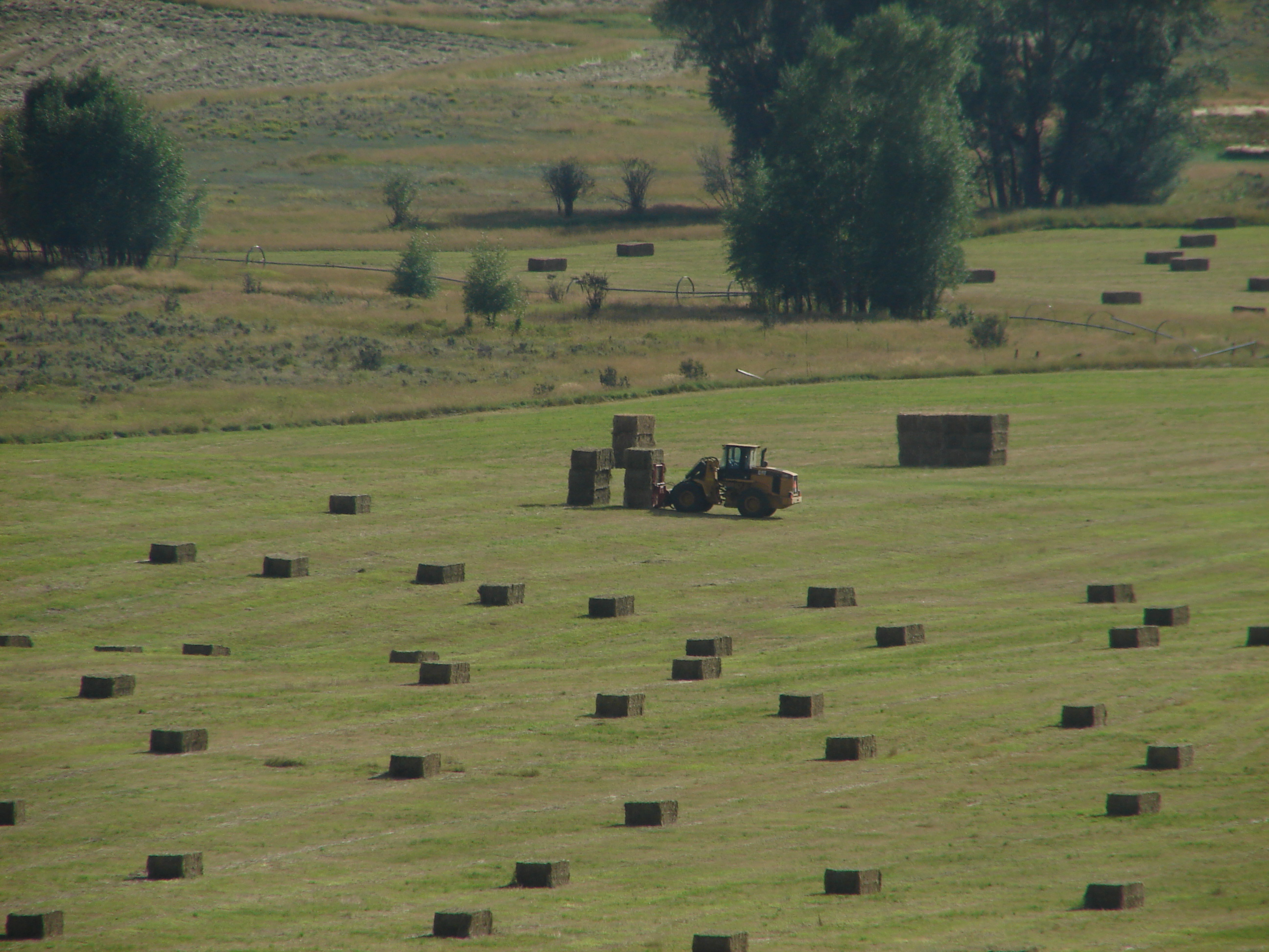 Haymaking. A Caterpillar loader stacking square hay bales, USA.